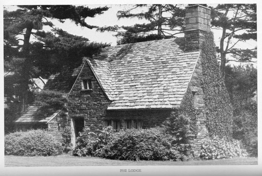 The Phi Chapter of Phi Sigma Kappa Fraternity, at Swarthmore, as photographed in The Signet, Jan 1944, vol.XXXVI, No.1, p.7, for the page List of Phi Sigma Kappa Chapters Other information This is a low-res version of the file, for use on the Phi Sigma Kappa Wikipedia page.